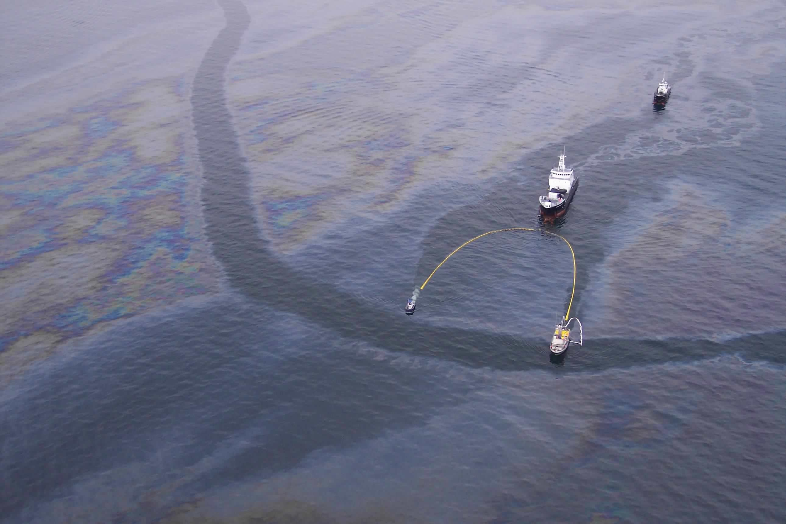 Oil skimmers at work.